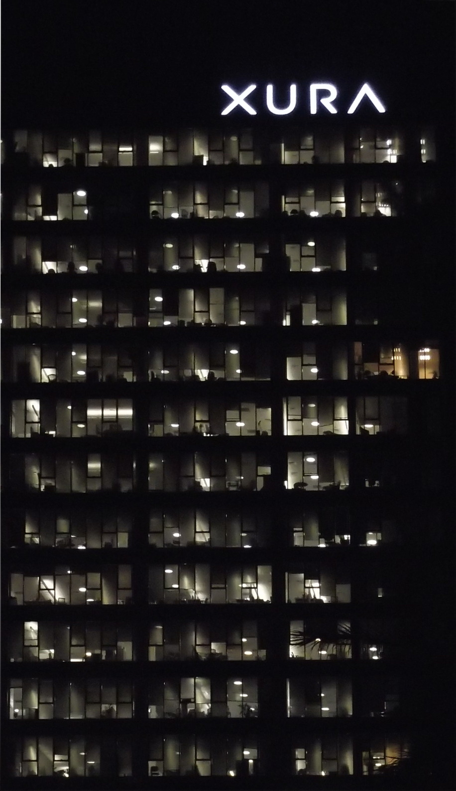 The Xura (formerly "Comverse") building in Ra'anana, Israel